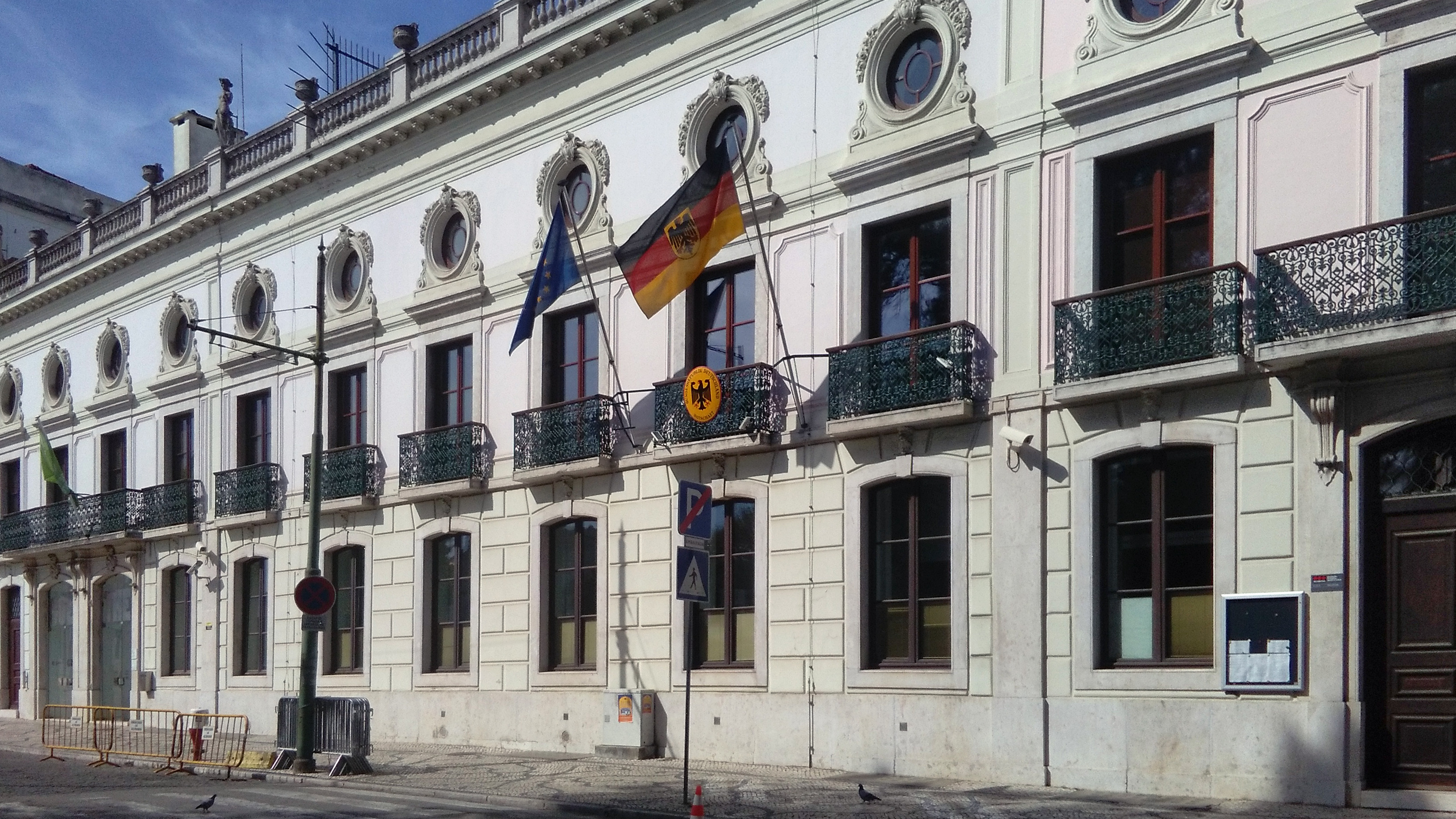 Building of the German embassy in Lisbon, Portugal.